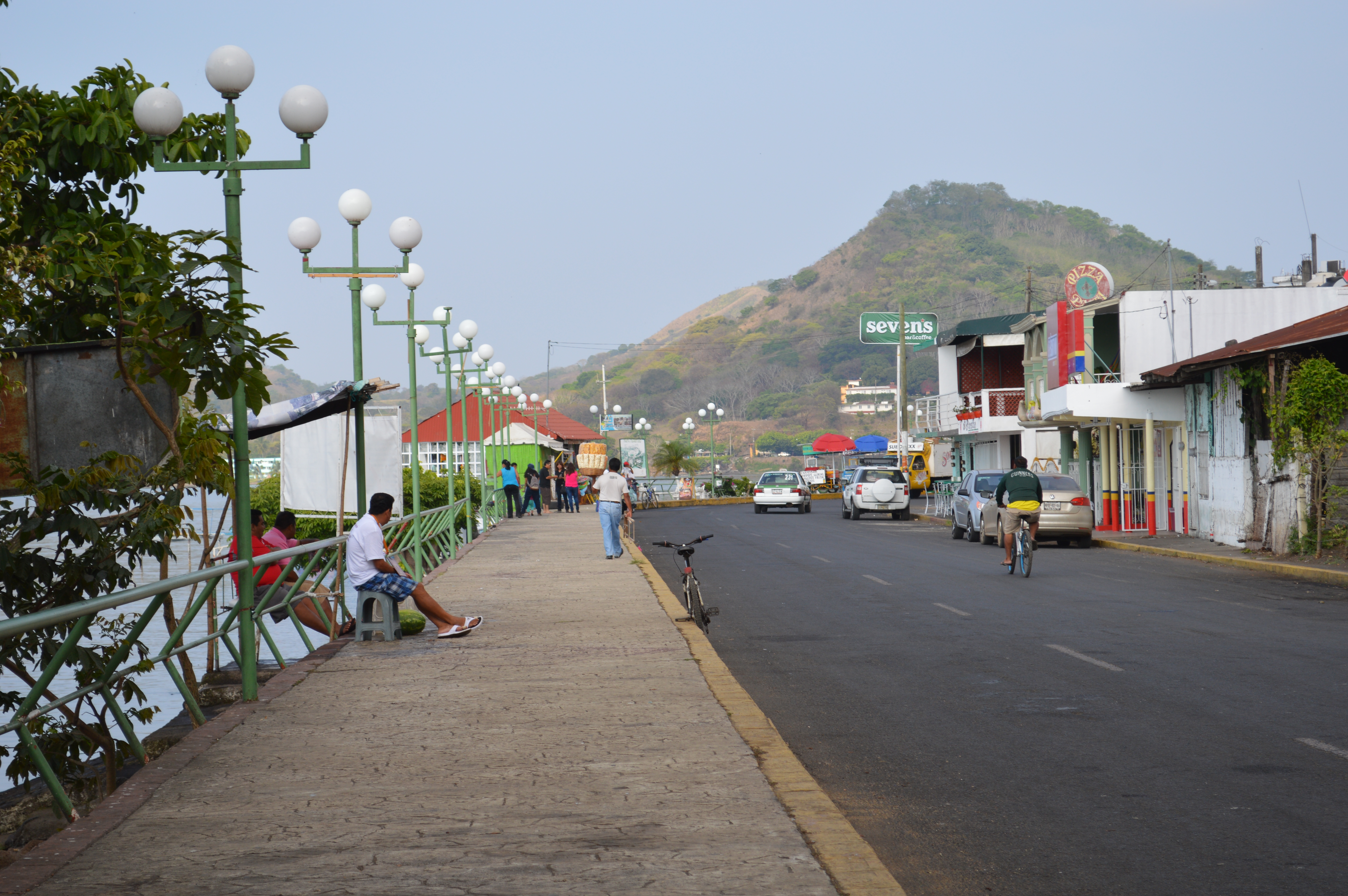 Malecón Road in Catemaco, Veracruz, Mexico